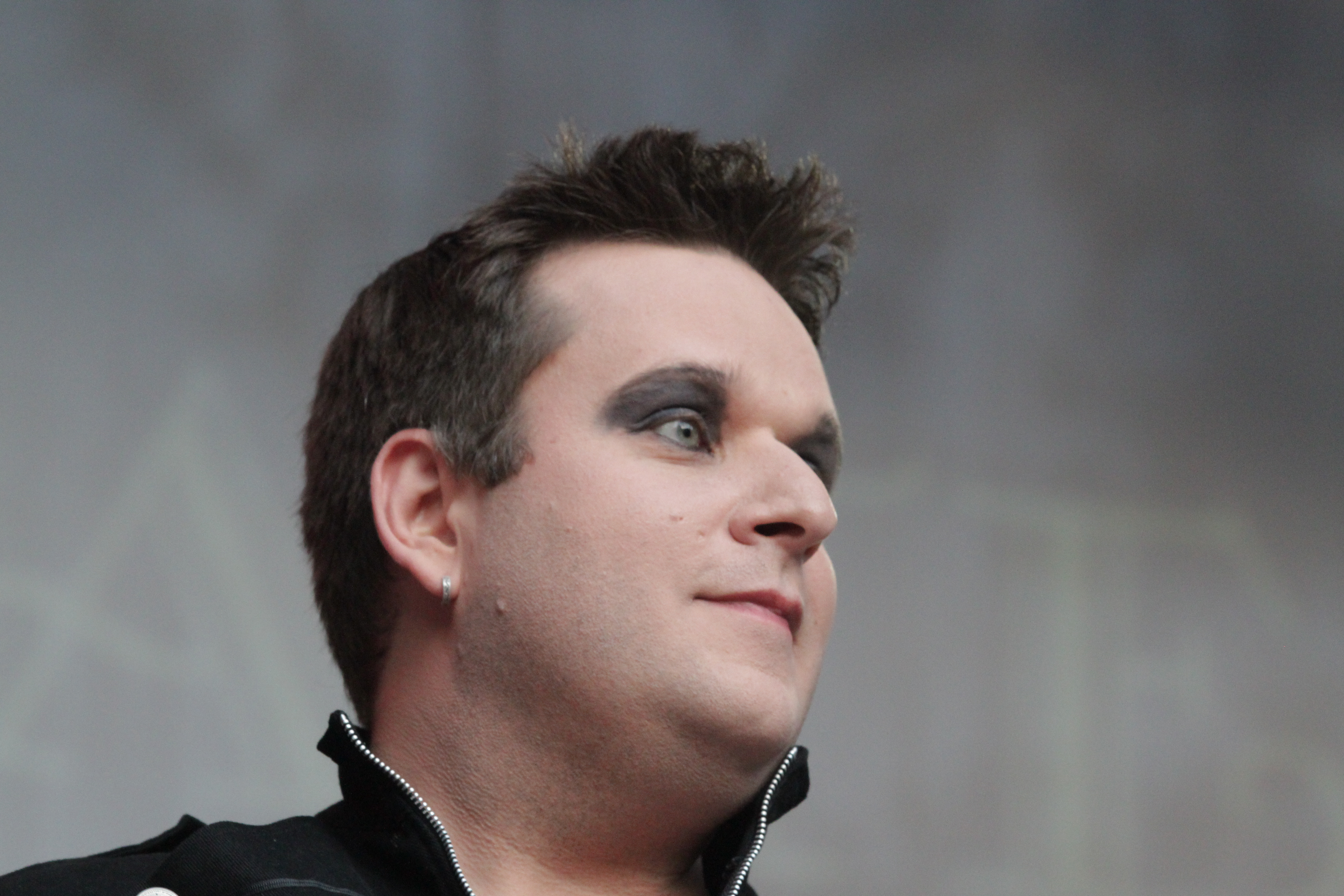 Illuminate at the Wave-Gotik-Treffen 2014.